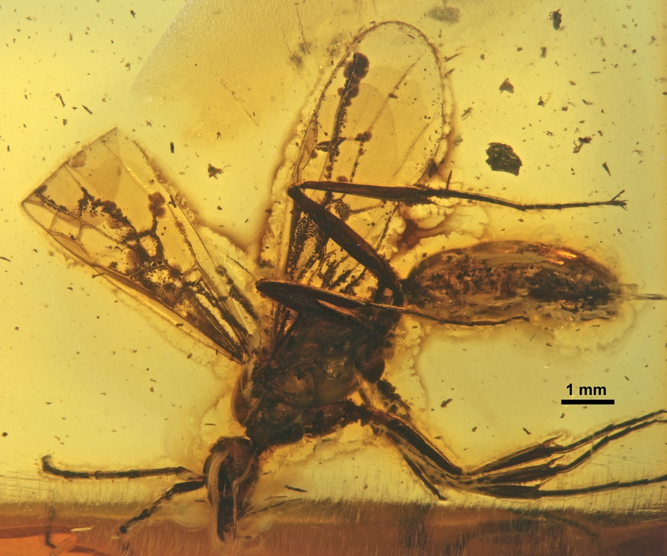 Dorsal view of the Paraneuretus tornquisti androtype specimen GZG-BST04674. (formerly specimen B 797 of the Geologic Institute of Koenigsberg Collection). Lutetian, Baltic Amber; Russia?